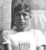 Lewis Tewanima, Athlet and medalwinner at the 1912 Olympic Games photography, adapted reproduction, no restrictions on use Copyright: free of charges